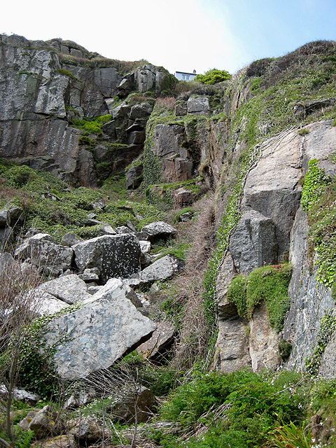 Tregurnow Cliff. Forming the western edge of Lamorna Cove.